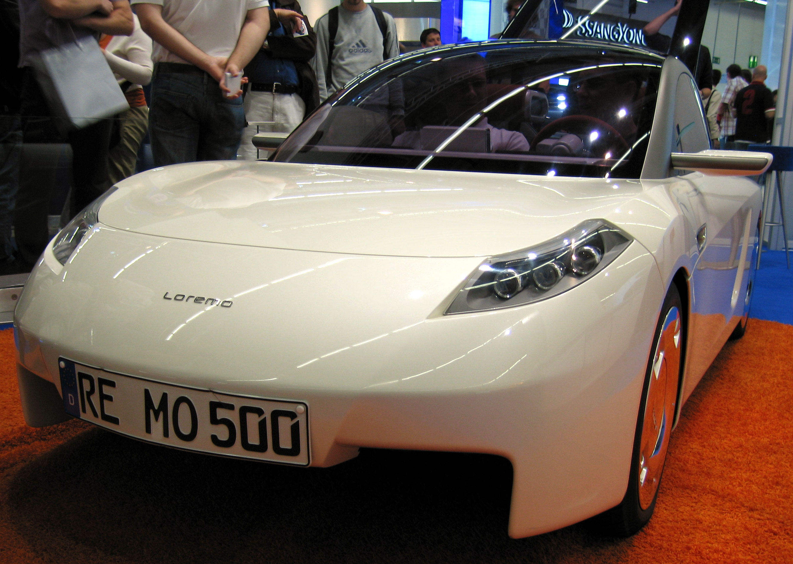 Loremo at the IAA 2007